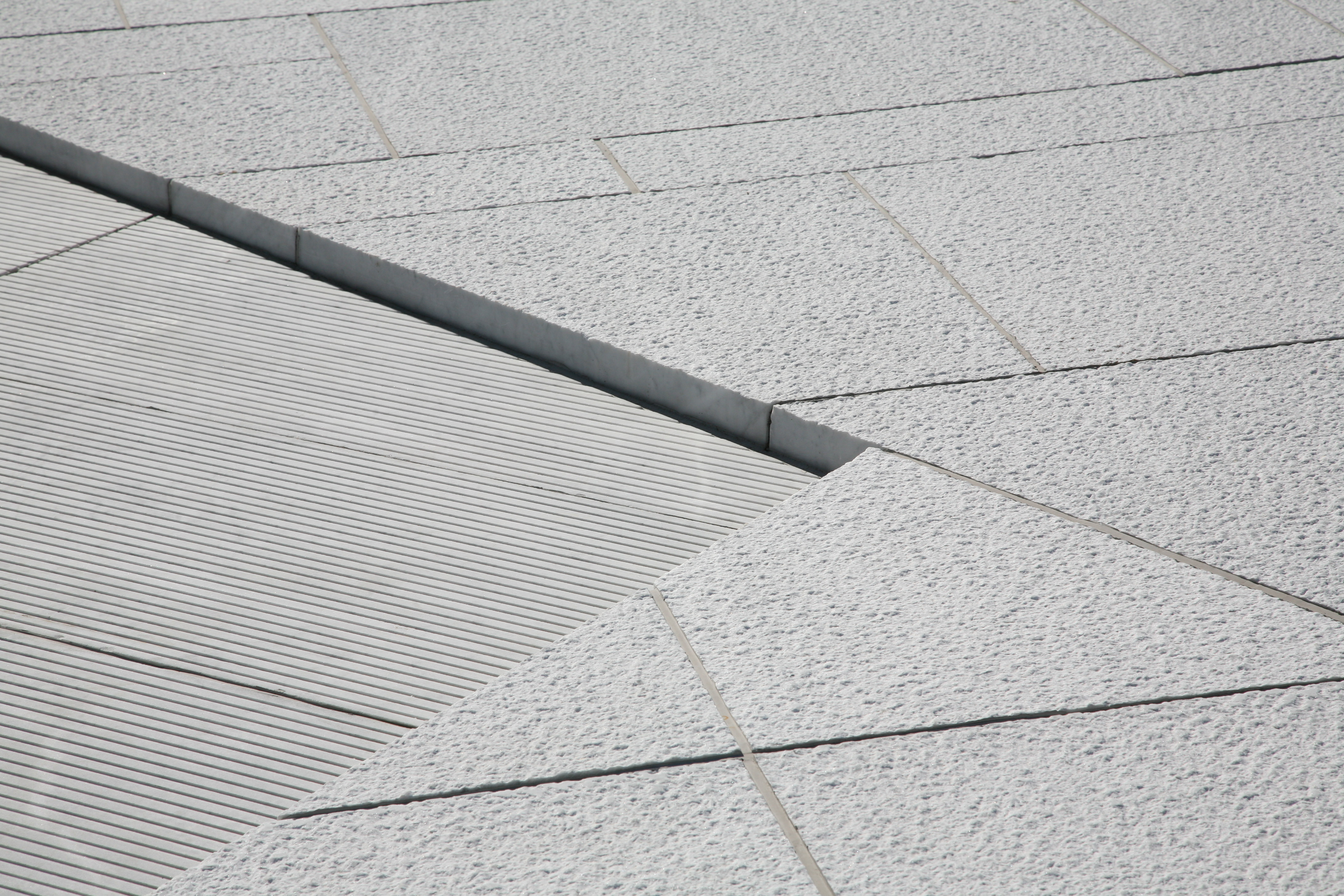 From the top of the roof of the new opera house in Bjørvika Oslo. Picture taken during "open roof day" August 26. 2007. The design of the marble roof is by Jorunn Sannes, Kalle Grude and Kristian Blystad